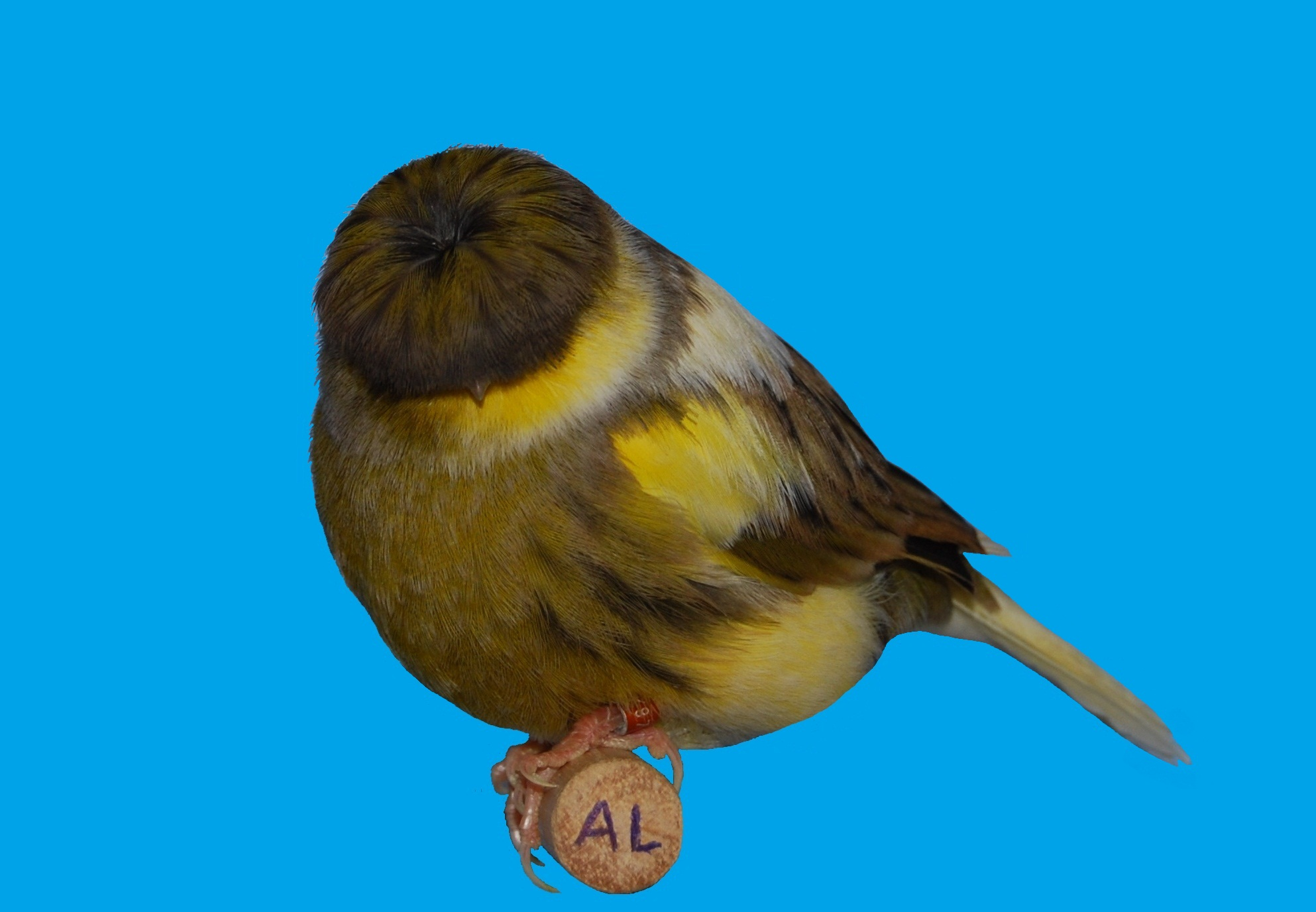 AlssemaGlosters.nl